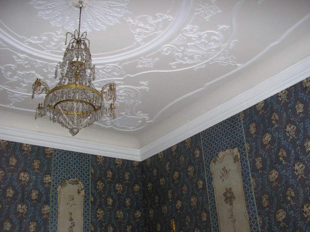 Blue lounge-part of ceiling (Ksiaz)